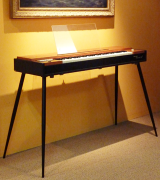 A Hohner Clavinet D6 with black tapered tubular steel legs and an acrylic music stand. This picture illustrates the intended use as a domestic keyboard.